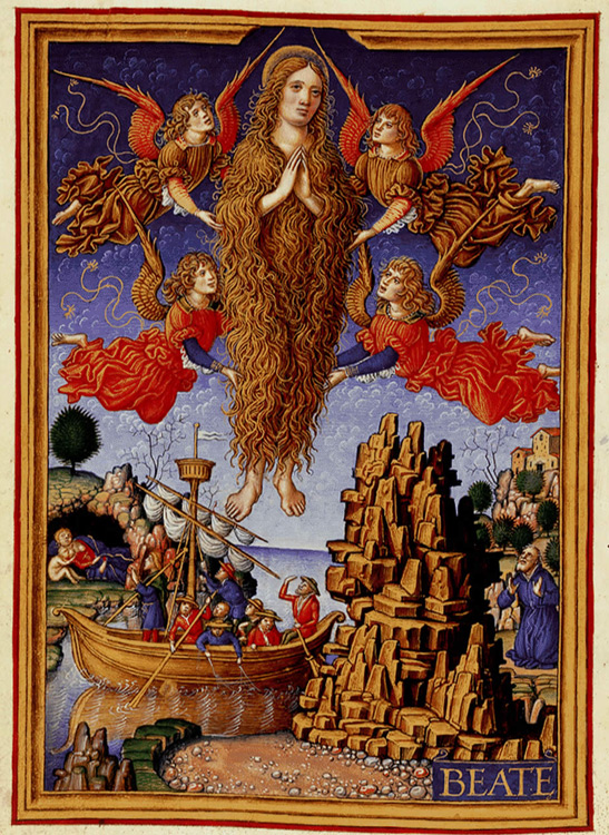 St Mary Magdalene, Sforza Hours (fol.211.v), c.1490, British Library Add. MS 34294